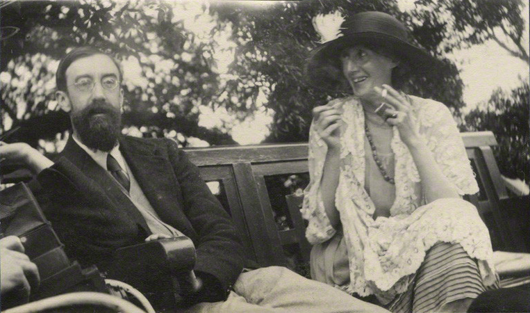 Vintage snapshot of Lytton Strachey and Virginia Woolf.